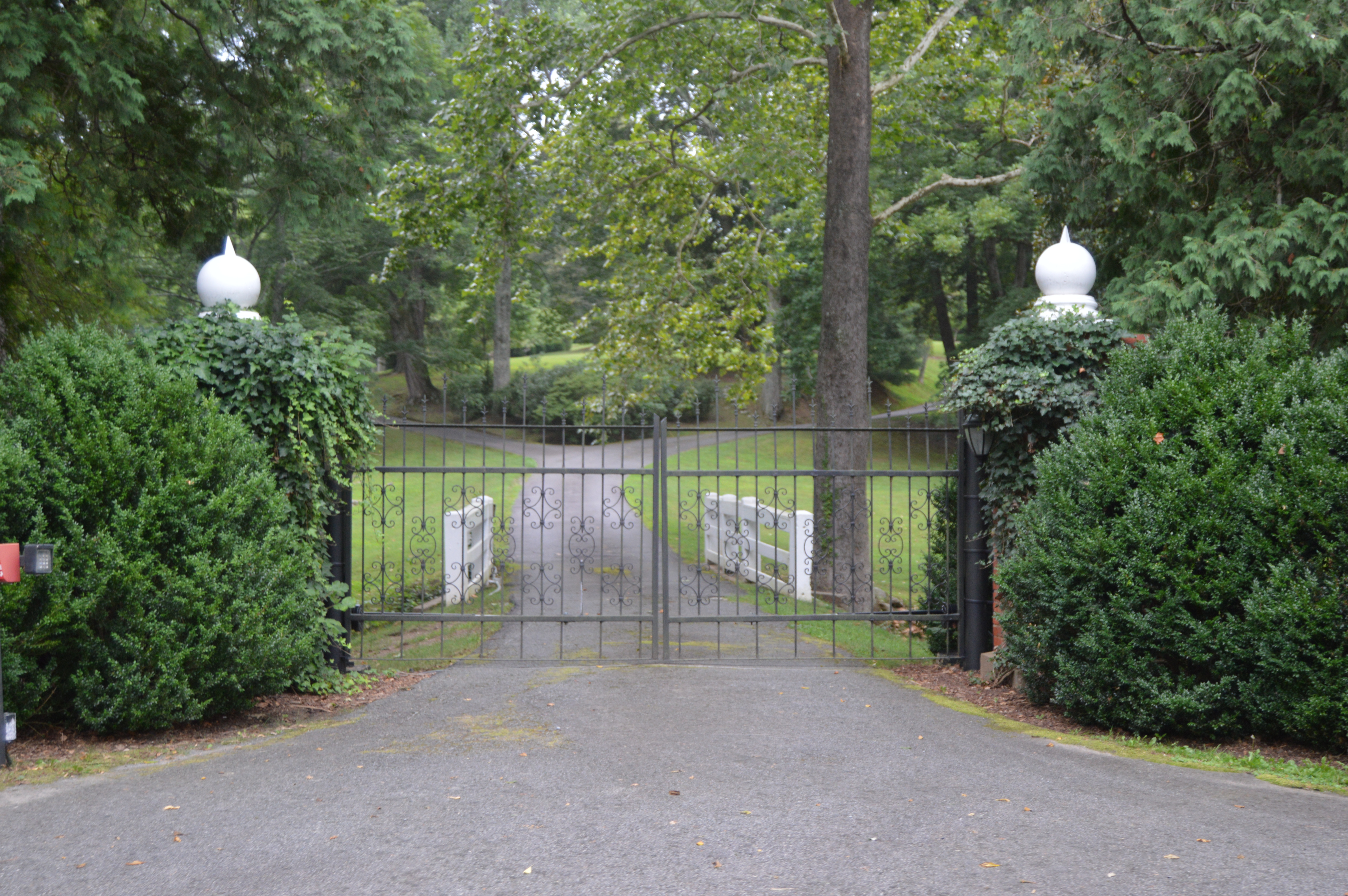 Gate to the Bellevue property, located off Plank Road northwest of Batesville in Albemarle County, Virginia, United States. The property is listed on the National Register of Historic Places.